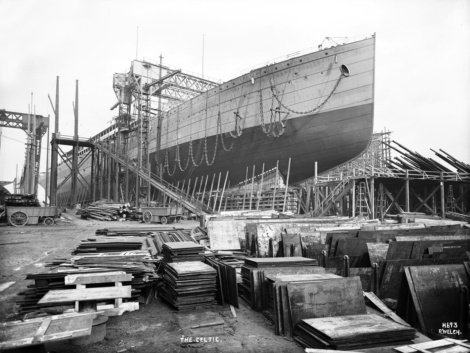 RMS Celtic (1901) under construction at Belfast